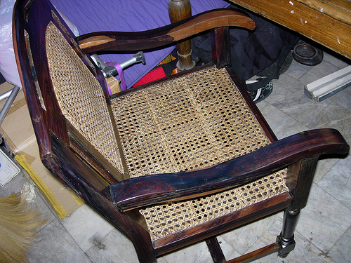 Ebony - Ironwood kamagong chair. Philippines.